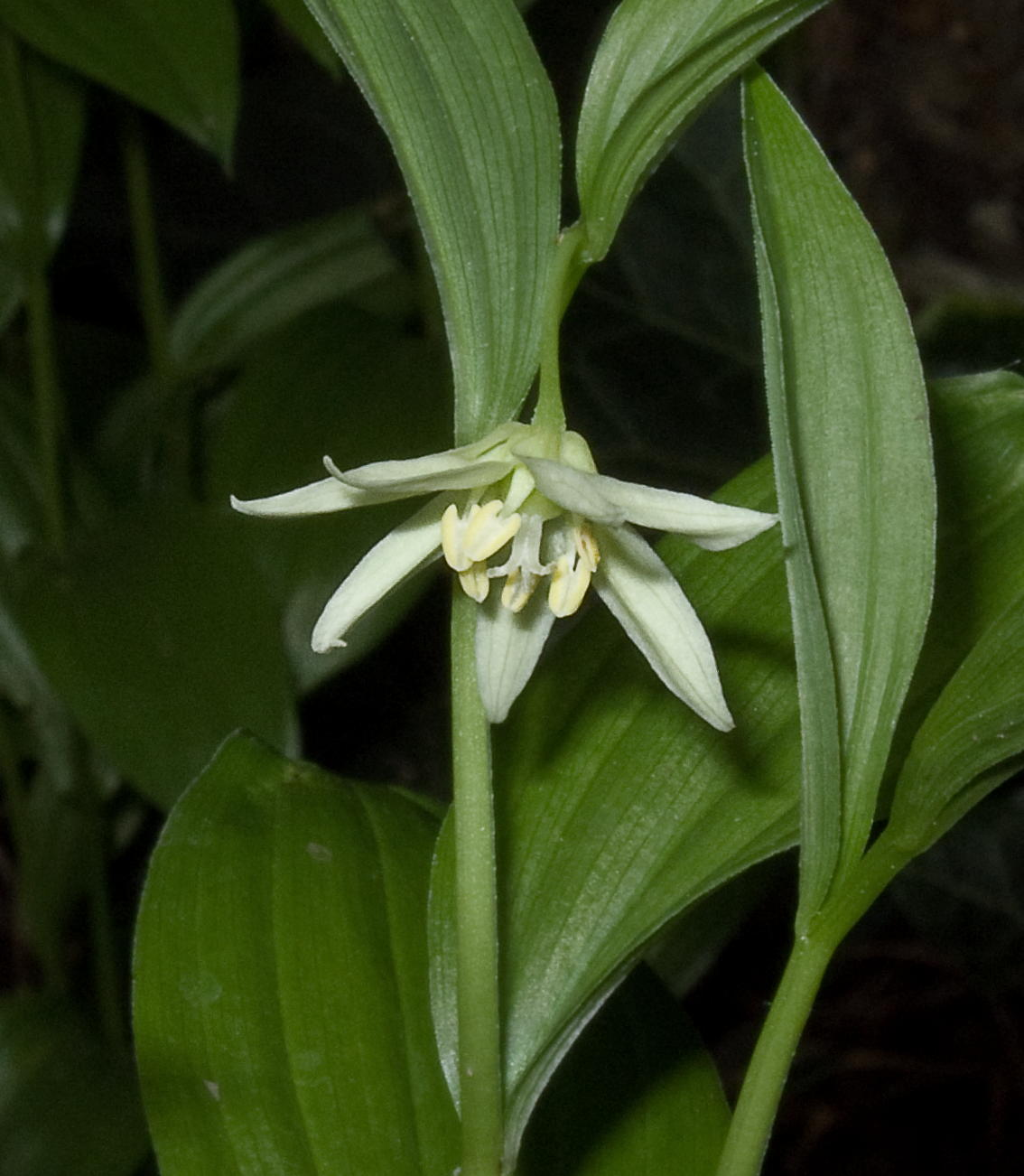 Flower of Disporum viridescens growing in cultivation near Sutton Coldfield, England